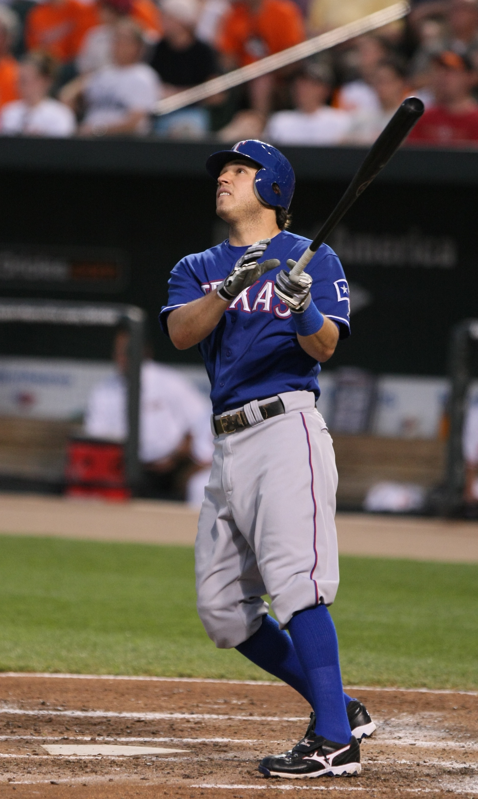 Ian Kinsler